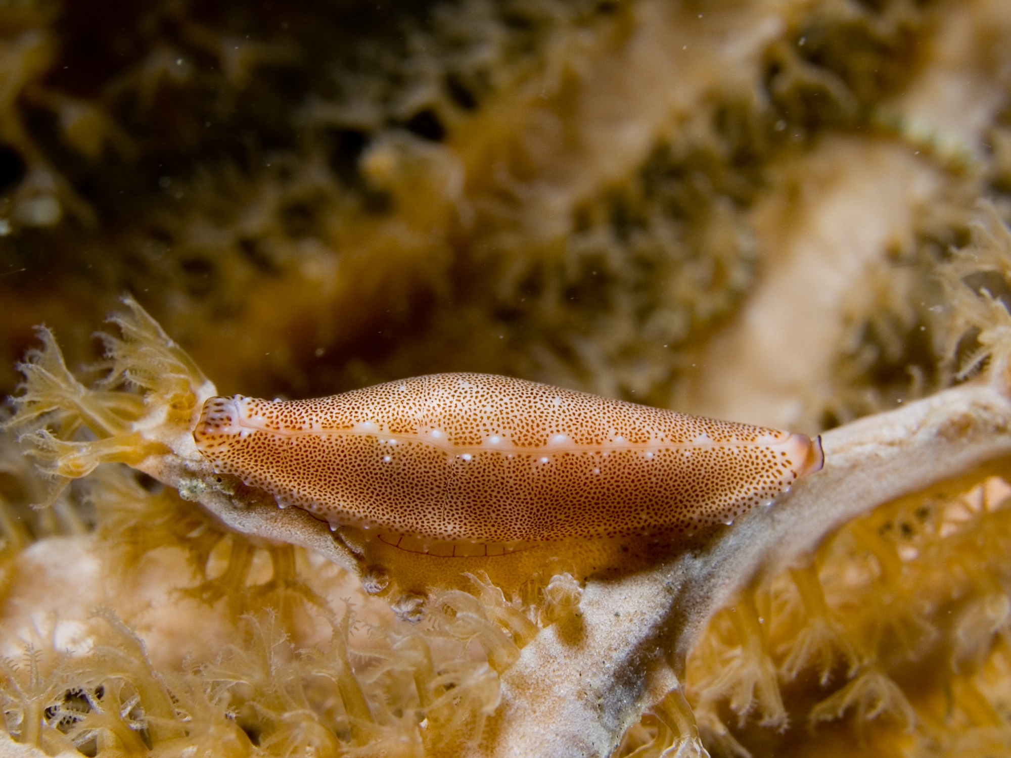 Small cowry species Pellasimnia brunneiterma from East Timor.